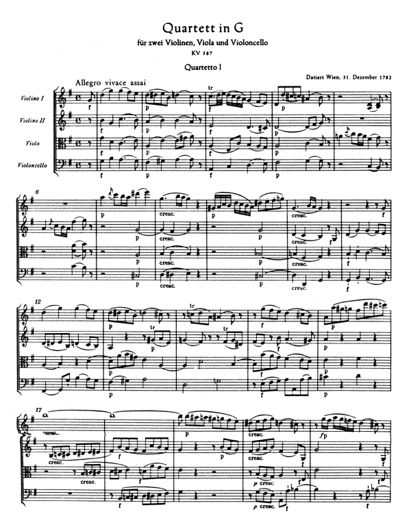 Beginning of Mozart's String Quartet No. 14, KV 387